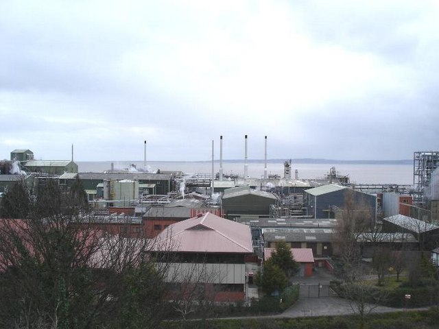 Mostyn Docks. The docks at Mostyn near to Flint